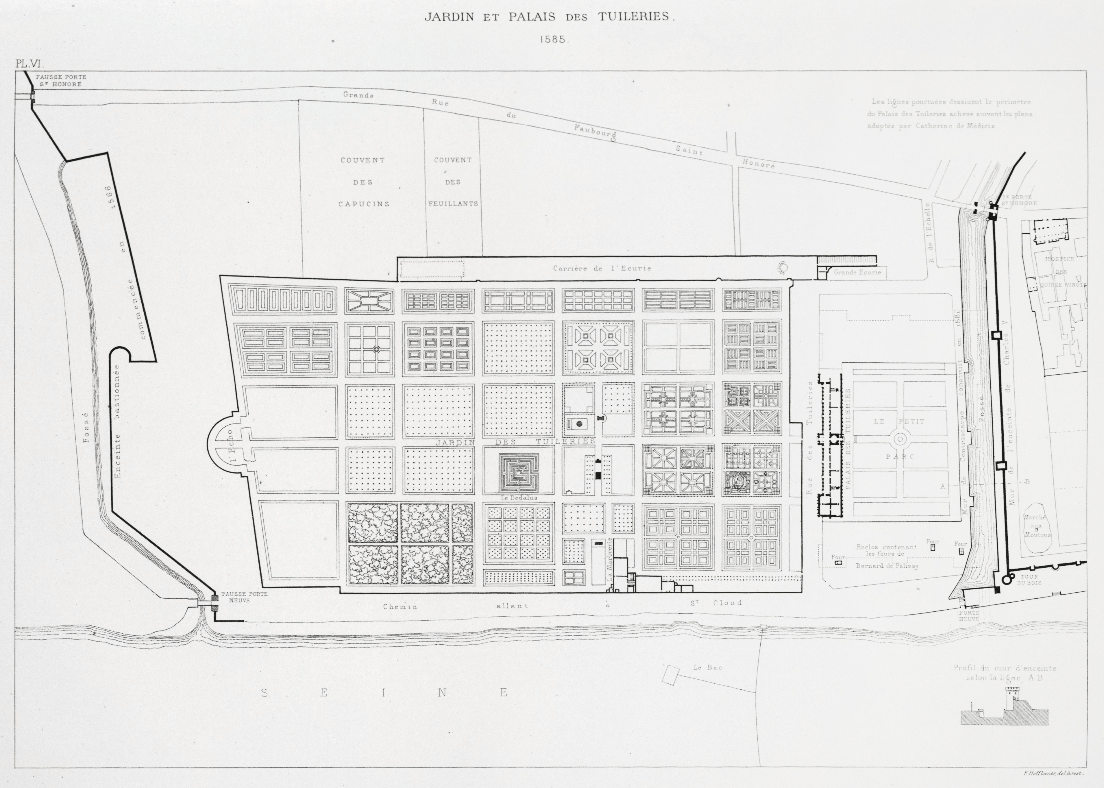 A plan of the Jardin et Palais de Tuileries in 1585. The overlay shows the same area in 1878.